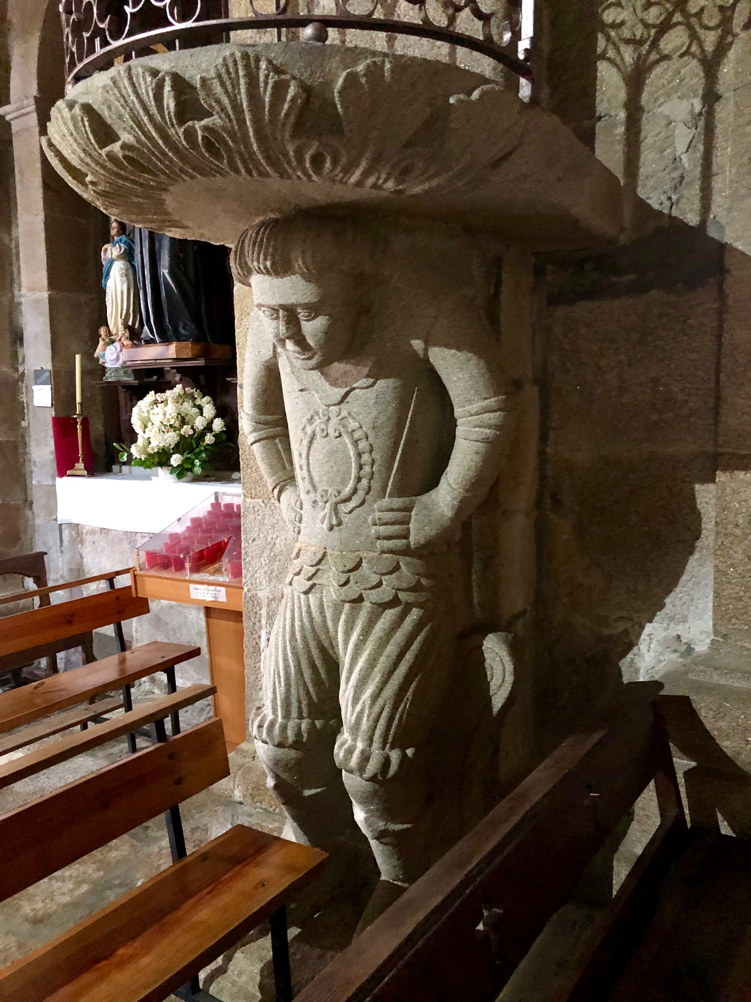 Atlas holding the pulpit of the church in Mourente (Pontevedra, Spain).